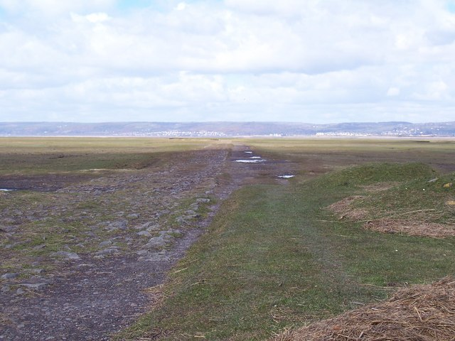 Causeway crossing Llanrhidian Marsh Causeway crossing the eastern edge of Llanrhidian Marsh. The debris in the foreground suggests a recent high tide. Pwll is visible across the Loughor (Llwchwr) estuary.